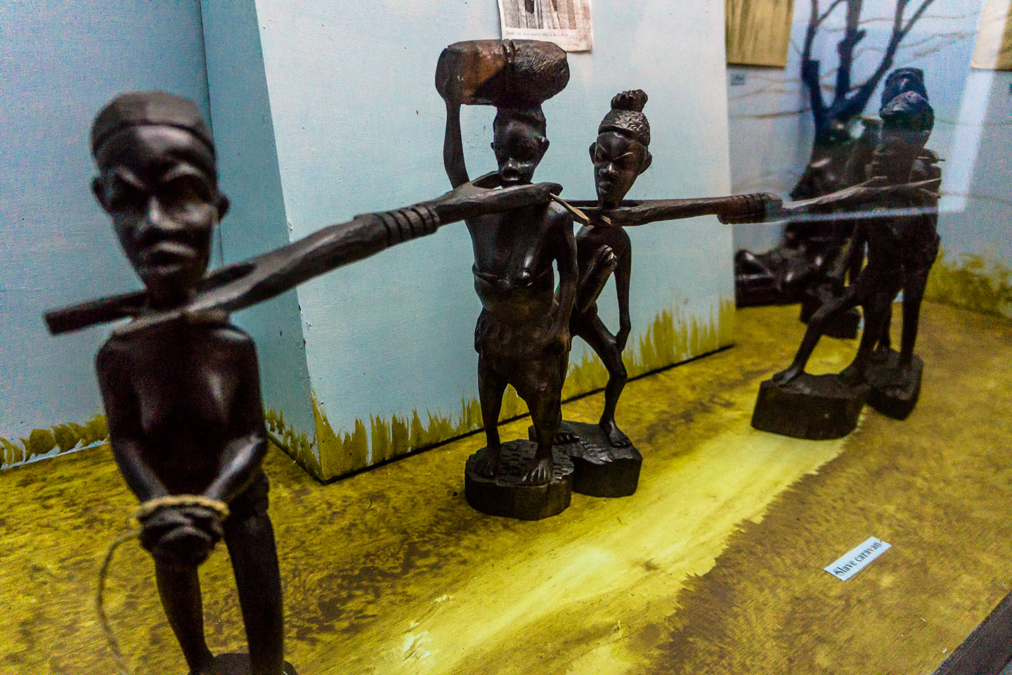 Carving of slave caravan, Lake Malawi Museum